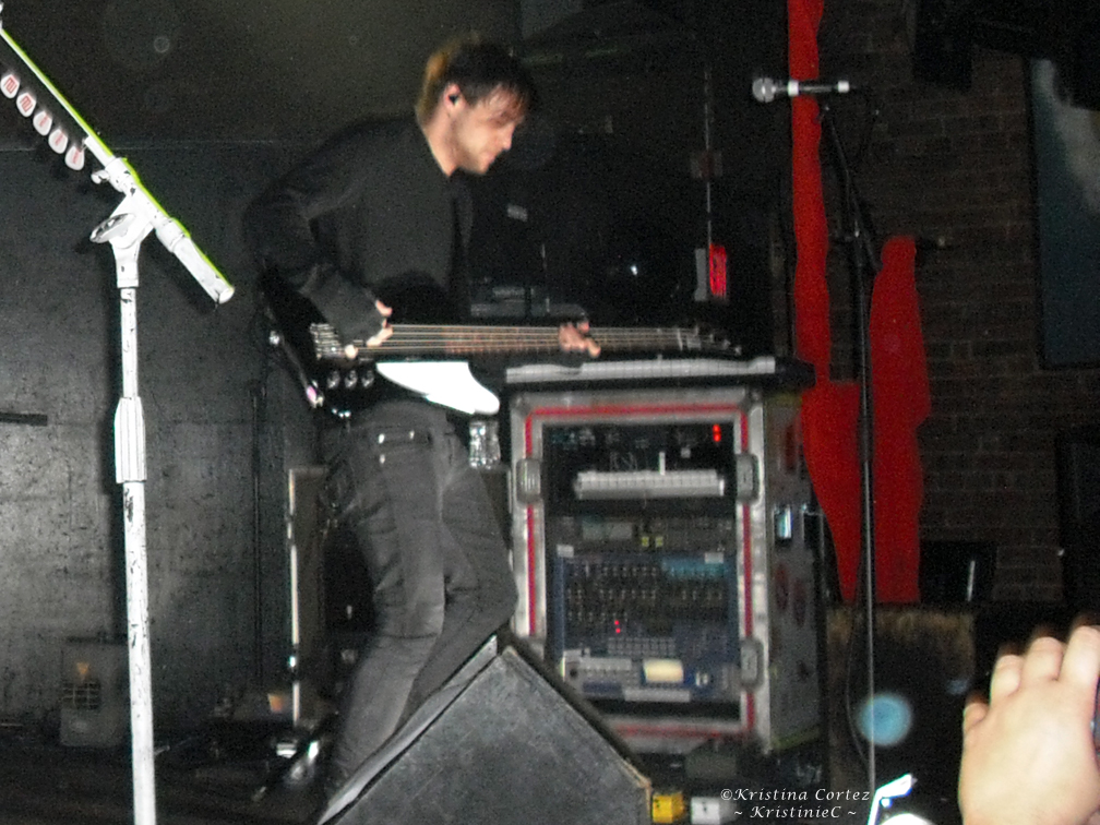 Tim Kelleher performing with Thirty Seconds to Mars in Baton Rouge, Louisiana in February 2010